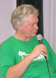 Zoltán Kocsis, Hungarian pianist and conductor, in Miskolc in 2009.